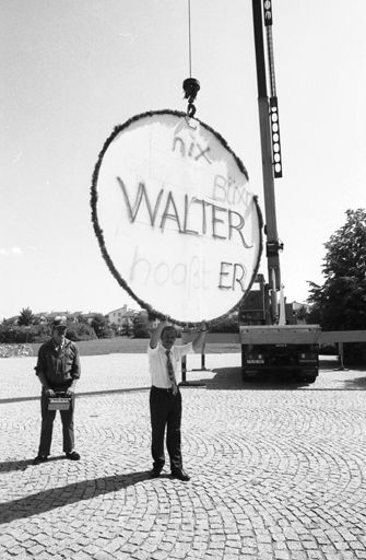 Local paper #52